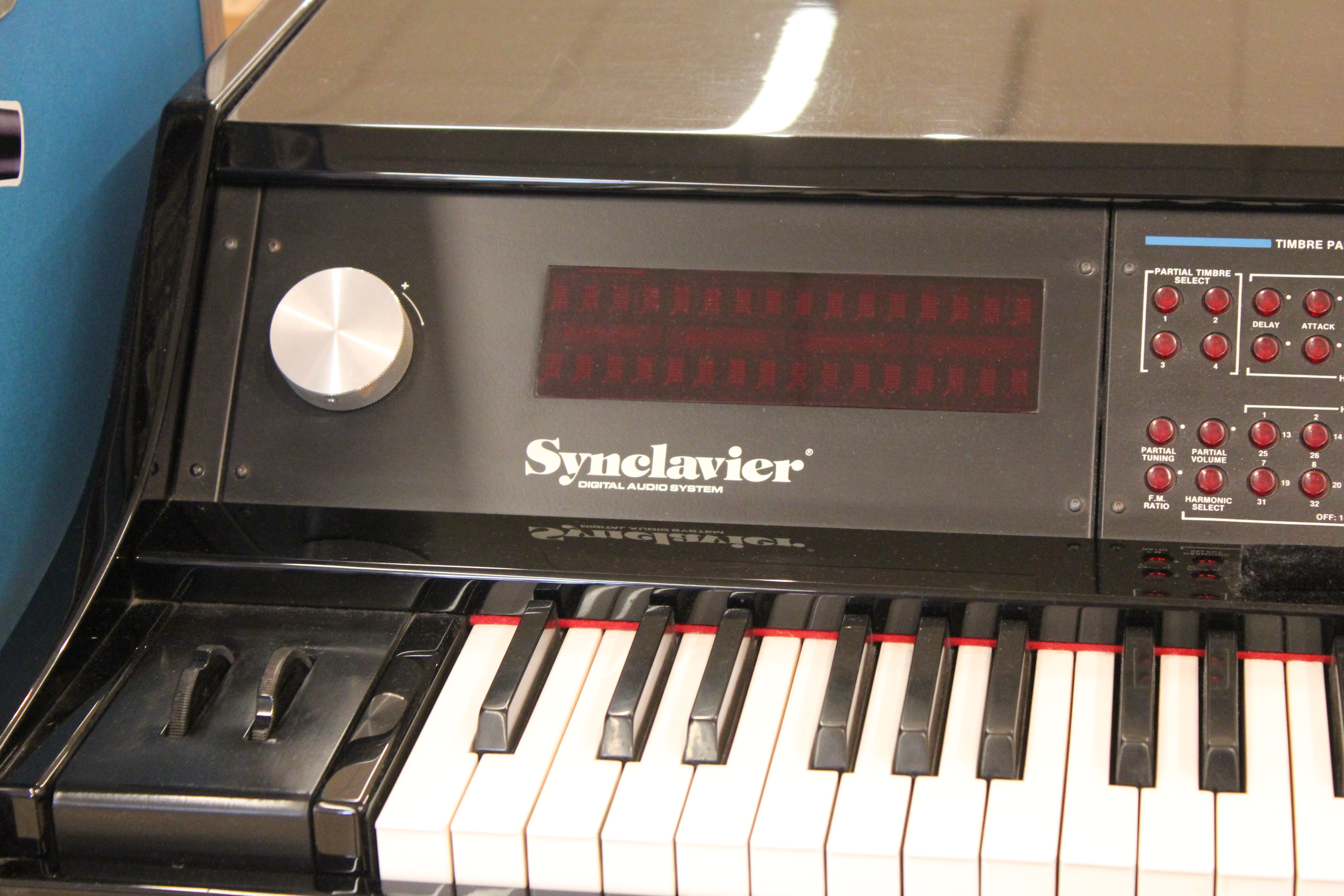 New England Digital Synclavier V/PK (Velocity/Pressure Keyboard) exhibited at Musical Instrument Museum (Phoenix) (MIM PHX)